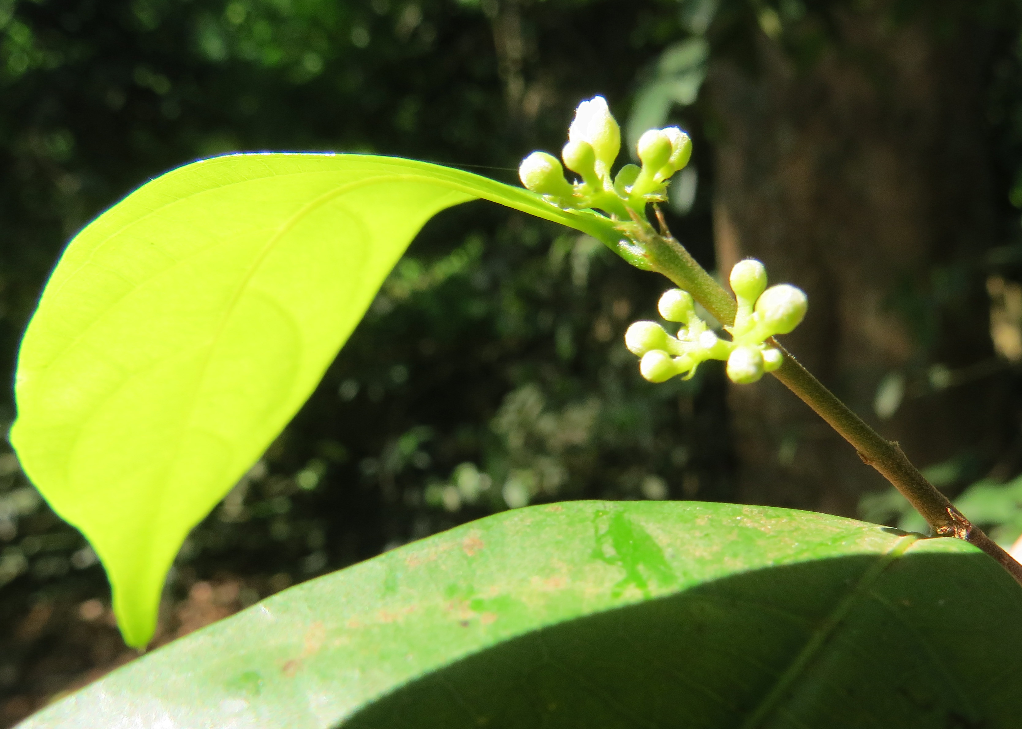 Dichapetalum gelonioides